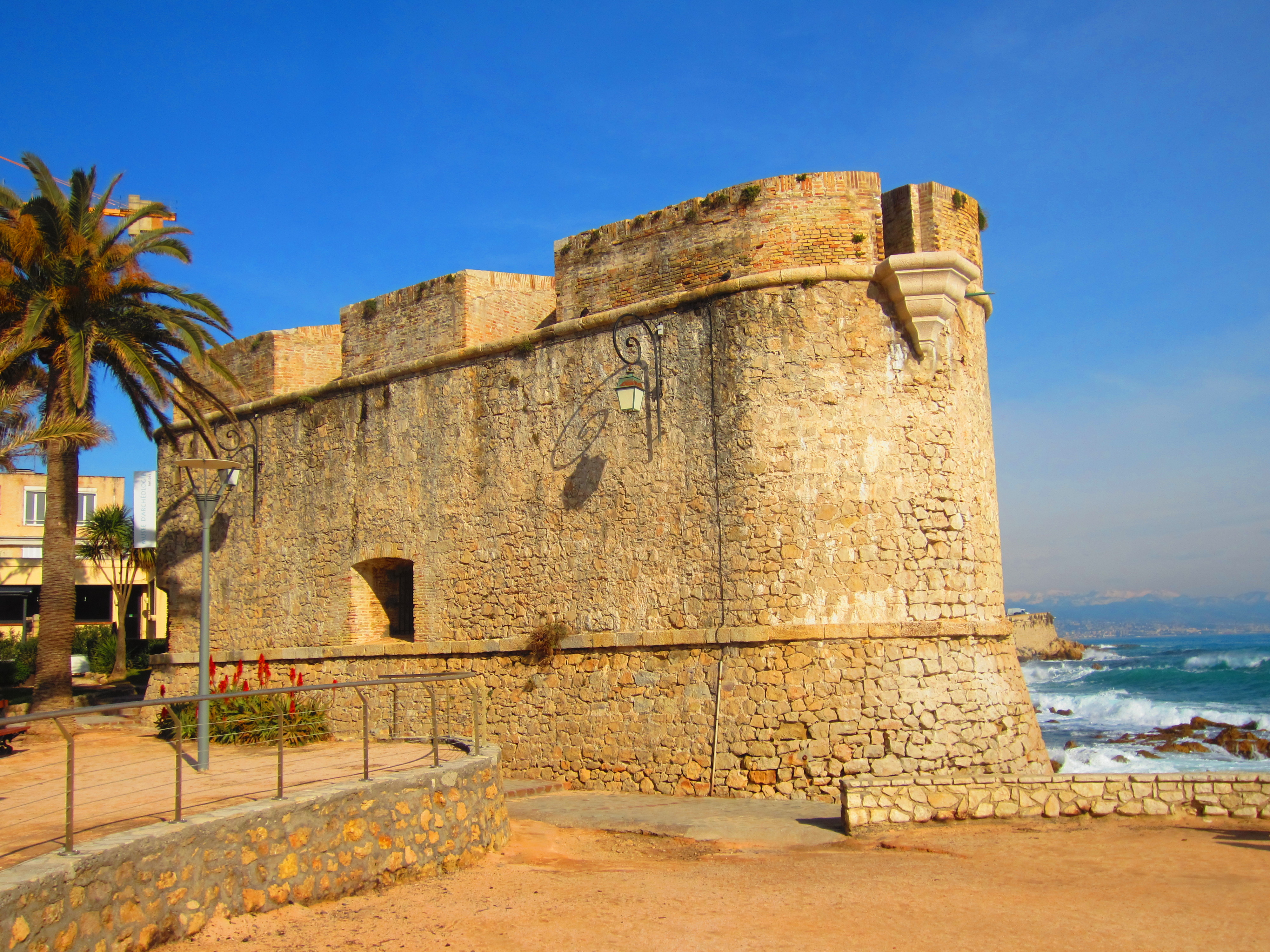 Bastion st andre Antibes